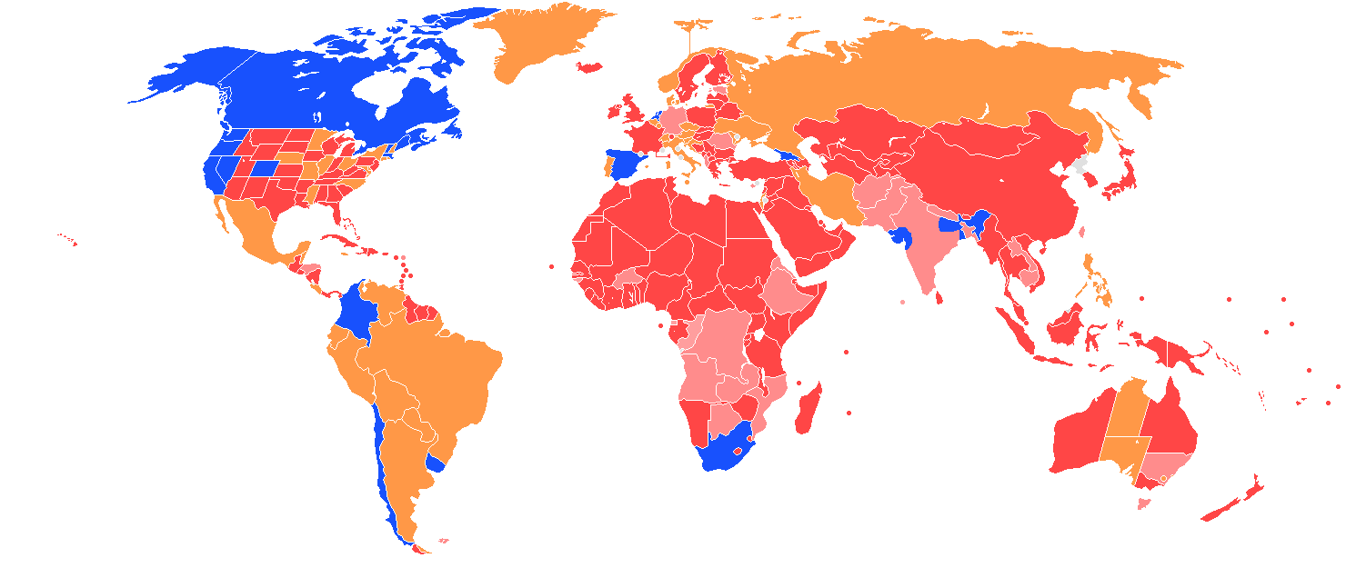 World laws on possession of small amounts of cannabis. Legal or essentially legal Illegal but decriminalized Illegal but often unenforced Illegal No information